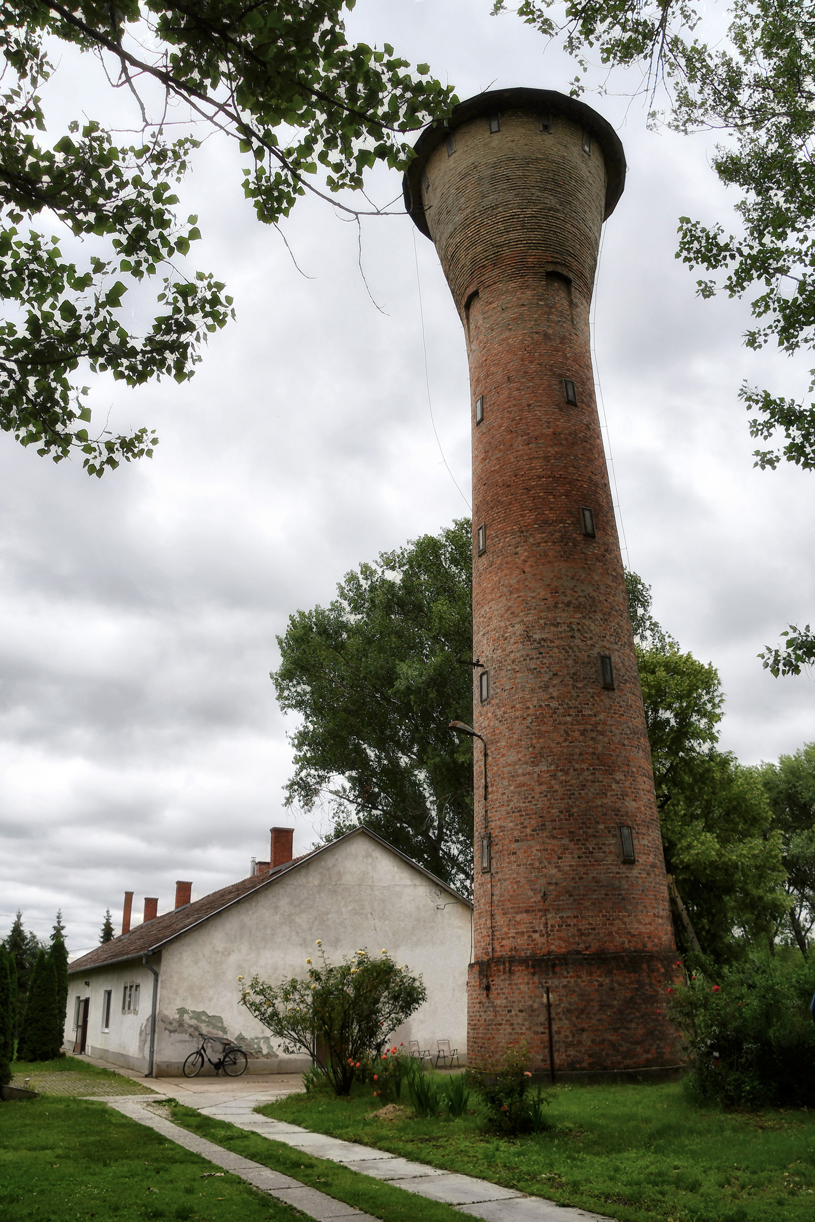 Water tower in Abda, Hungary